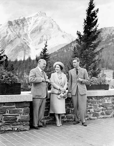 King George VI and Queen Elizabeth talking with Rt. Hon. W.L. Mackenzie King on the terrace of the Banff Springs Hotel